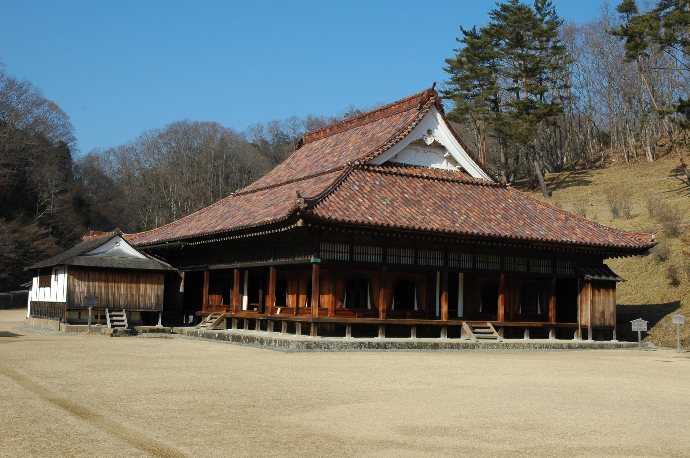 photo of Shizutani school the hall(Japan's national treasure) and shōsai(the feudal load's rest house,Japan's national important cultural property)